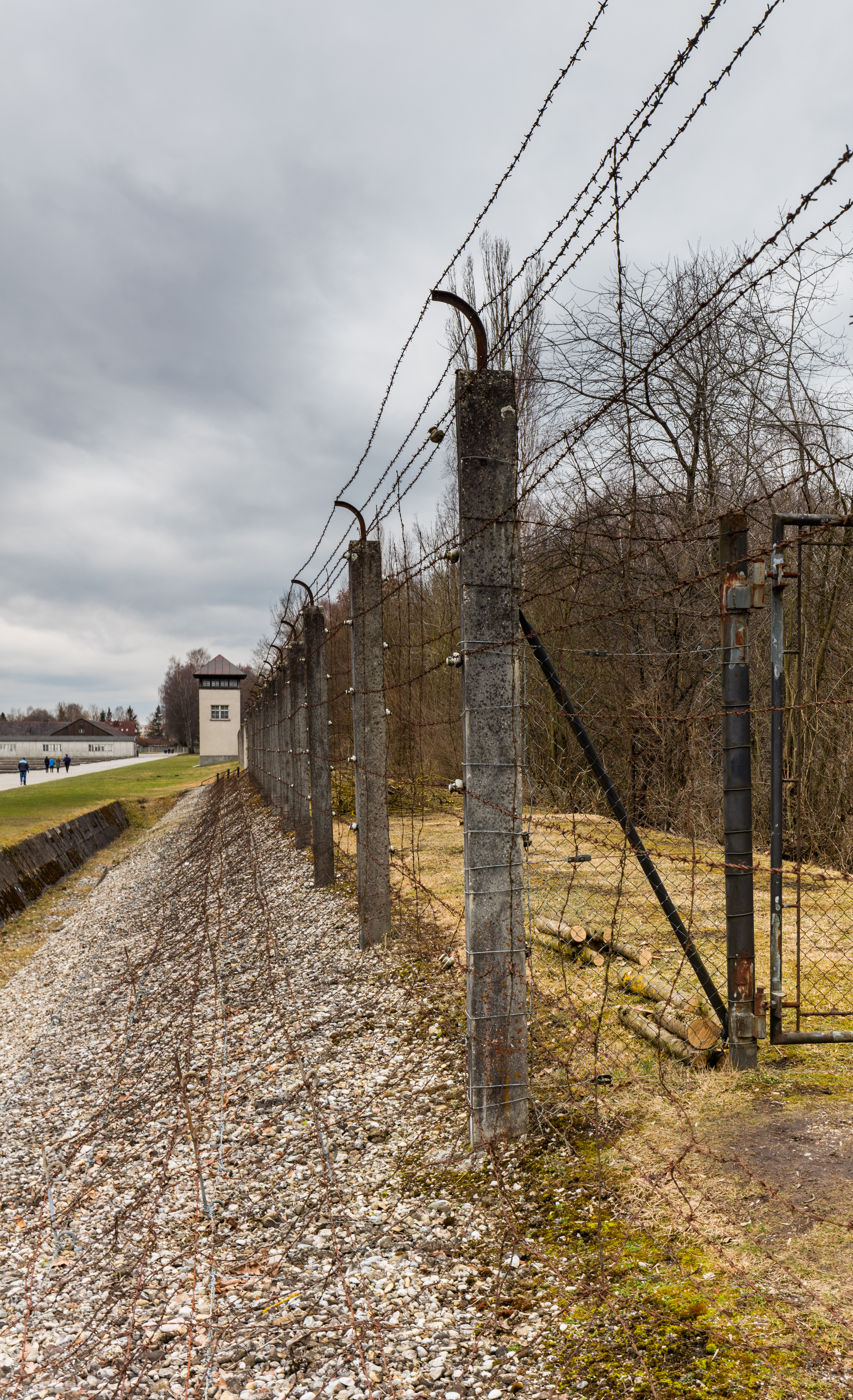 Fences of the concentration camp of Dachau, Germany